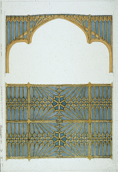 A design drawing for the reconstruction of the Private Chapel, Windsor Castle, after the 1992 fire